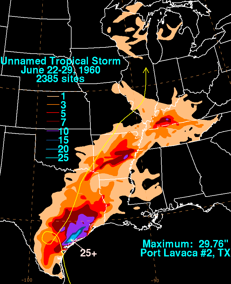 Storm total rainfall map of a tropical storm during June 1960.